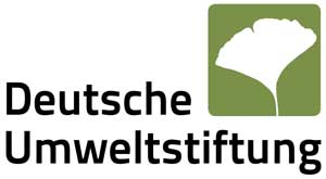 DUS Logo